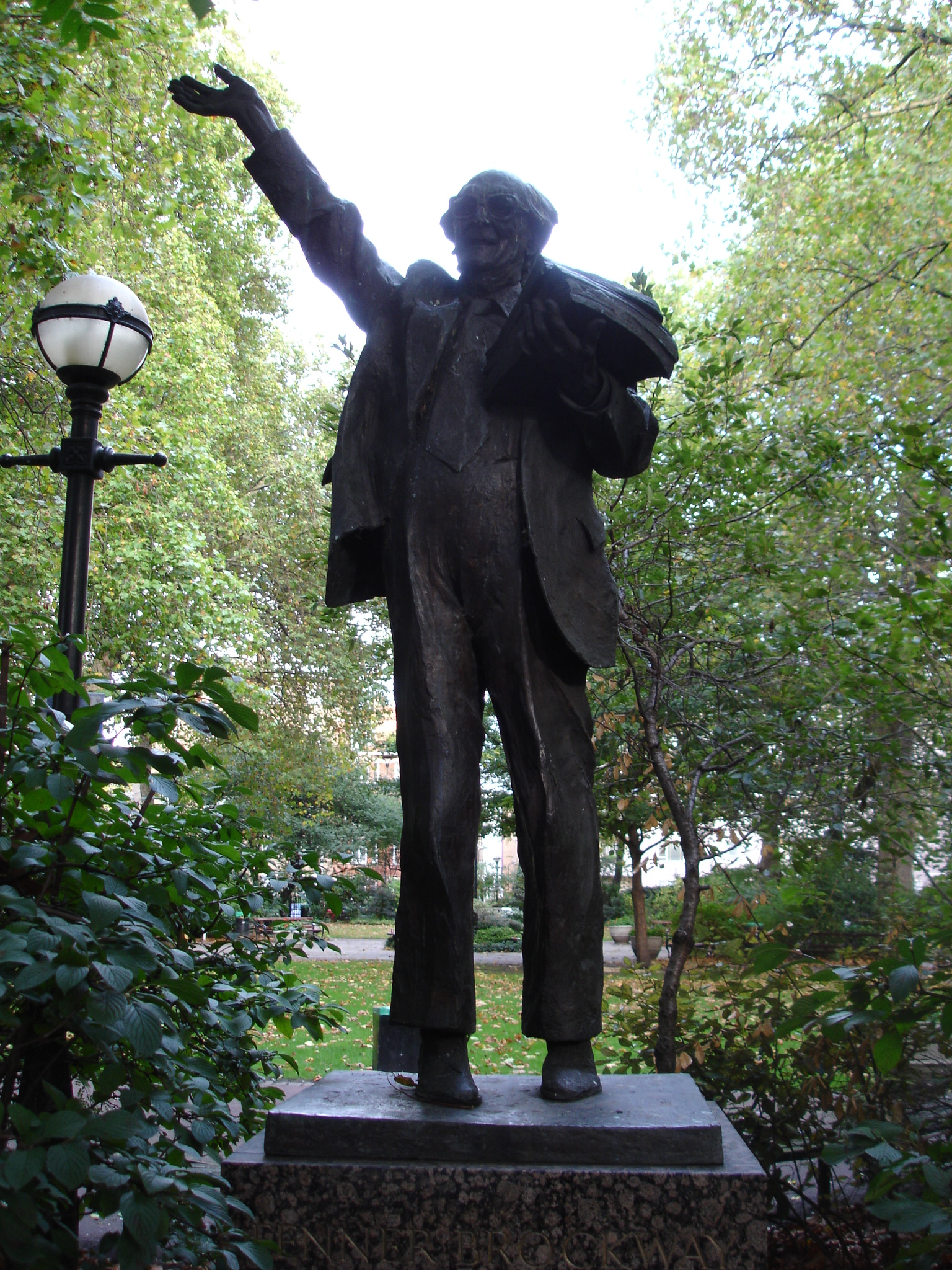 Own personal photography, taken October 2006